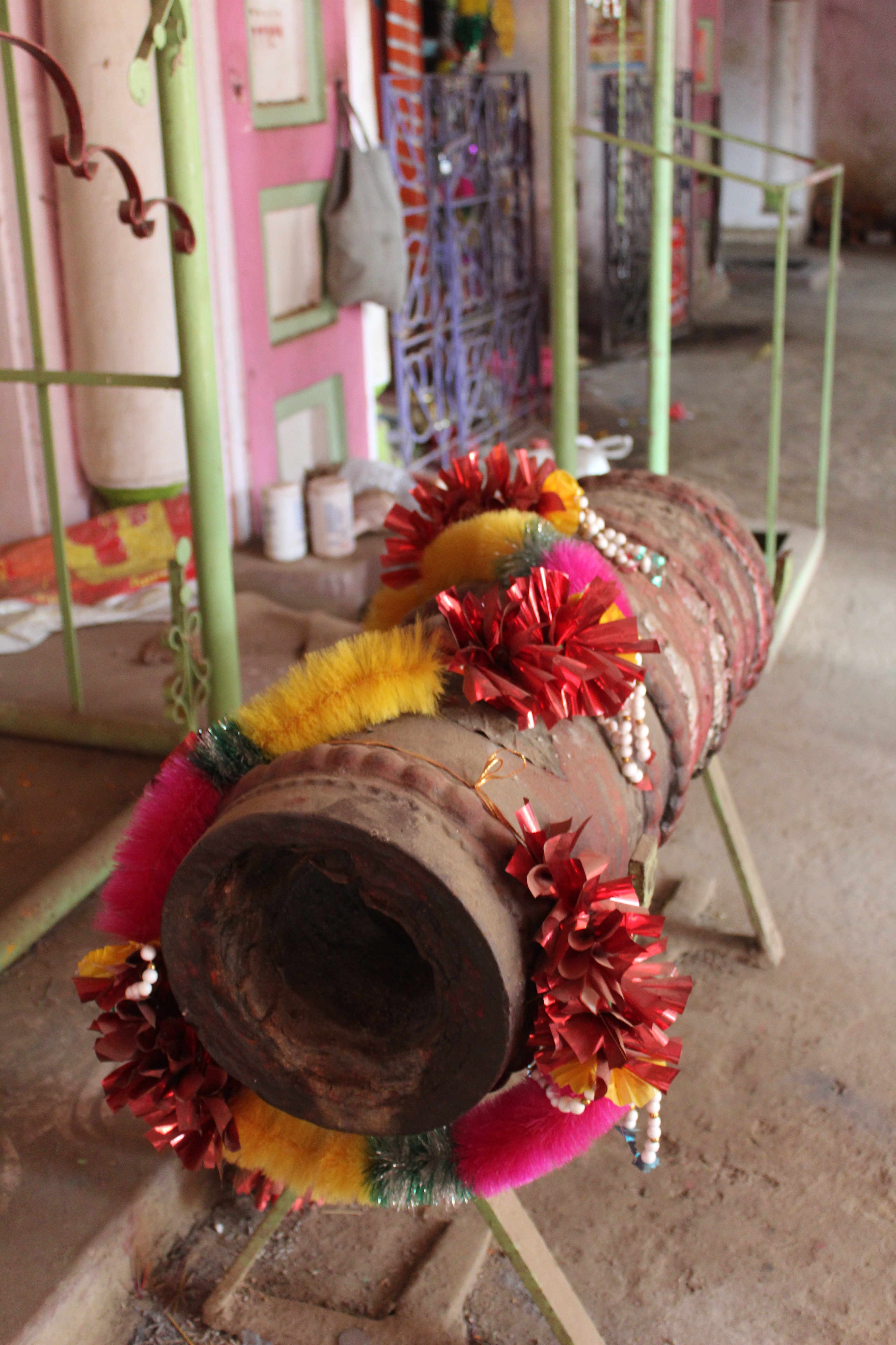 Mrinmoyee temple of Bishnupur in Bankura district